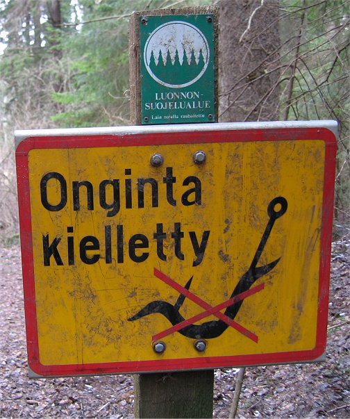 No fishing with worms sign, Pitkäkoski in Vantaanjoki river, i.e. between Helsinki and Vantaa, in Finland.